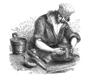 Illustration from George Dodd, Days at the Factories (1843). Female worker at Christy's hat factory in Bermondsey.